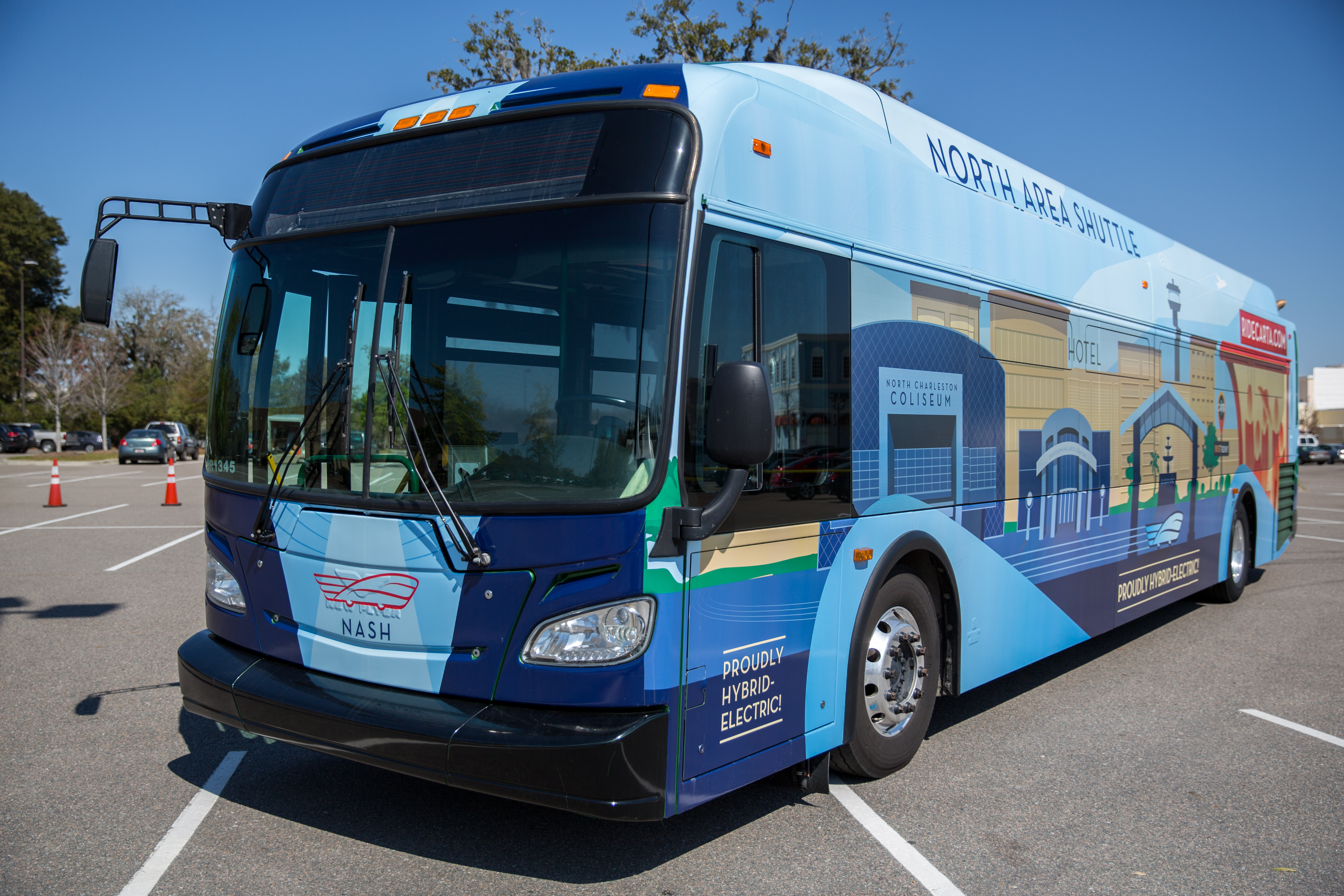 A New Flyer XDE40 used by the Charleston Area Regional Transportation Authority on North Area Shuttle routes in North Charleston, South Carolina.